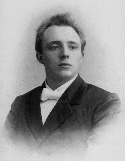 Matthias Beule (1877–1921) German sculptor.